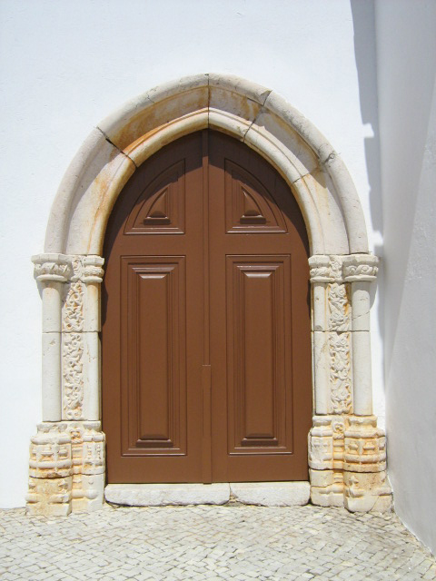 Igreja Matria, Estômbar, main door.